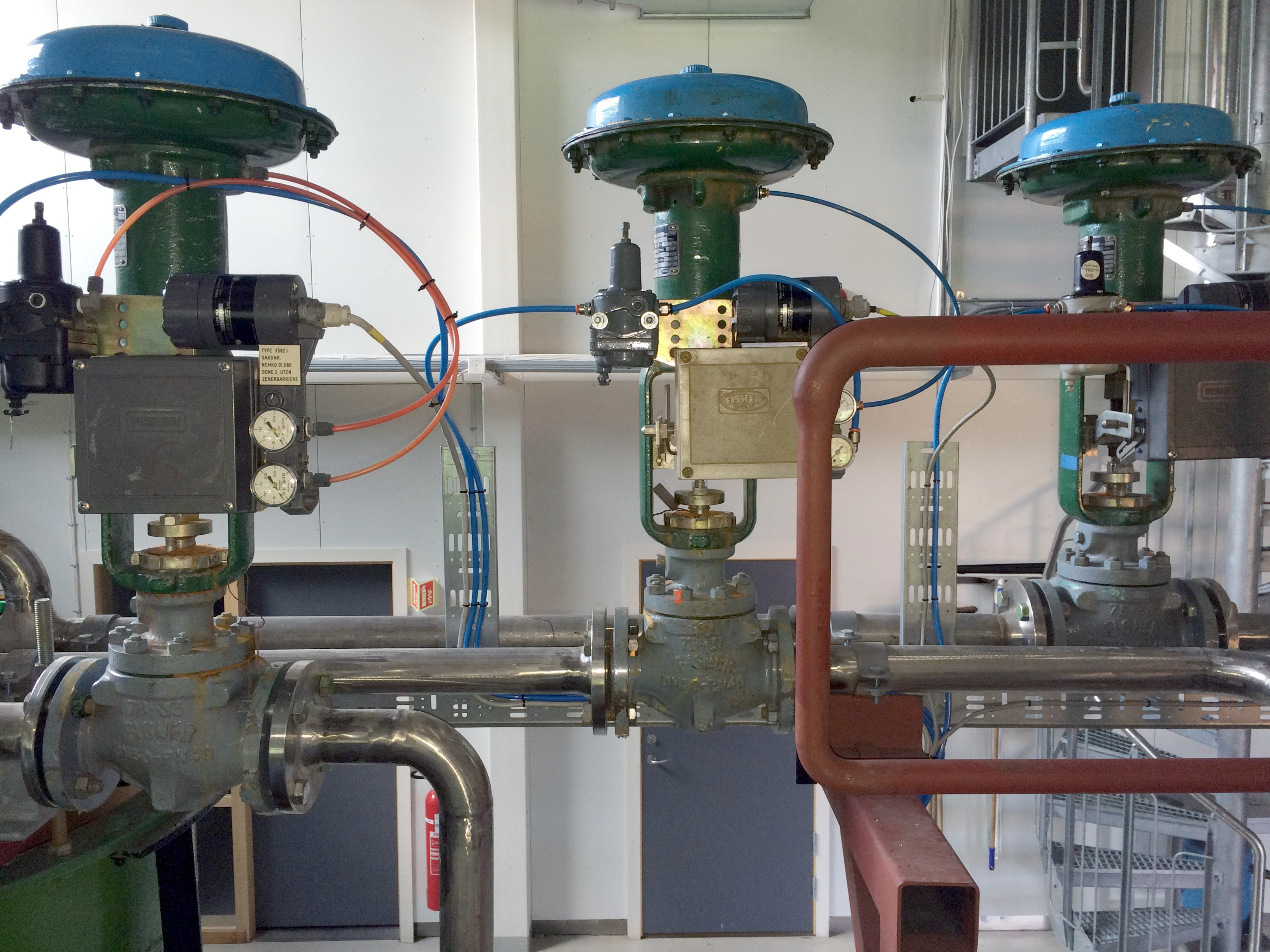 Three Fisher control valves with positioners